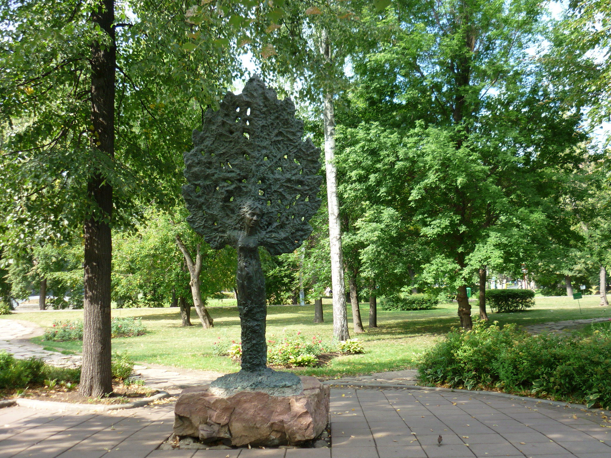 Park-Usadba Trubeckih